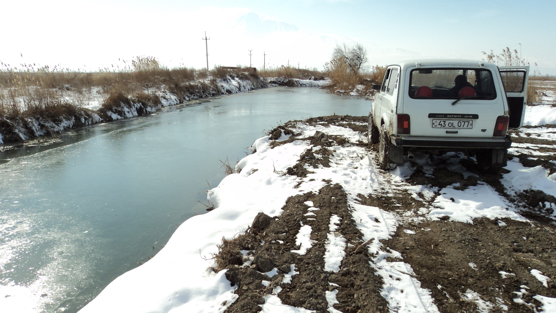 Lada Niva car in Winter